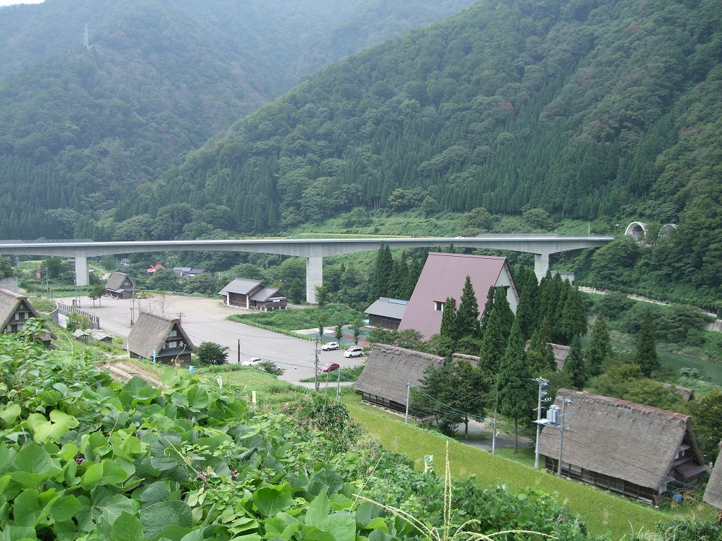 TOKAI-HOKURIKU EXPWY and Suganuma old house